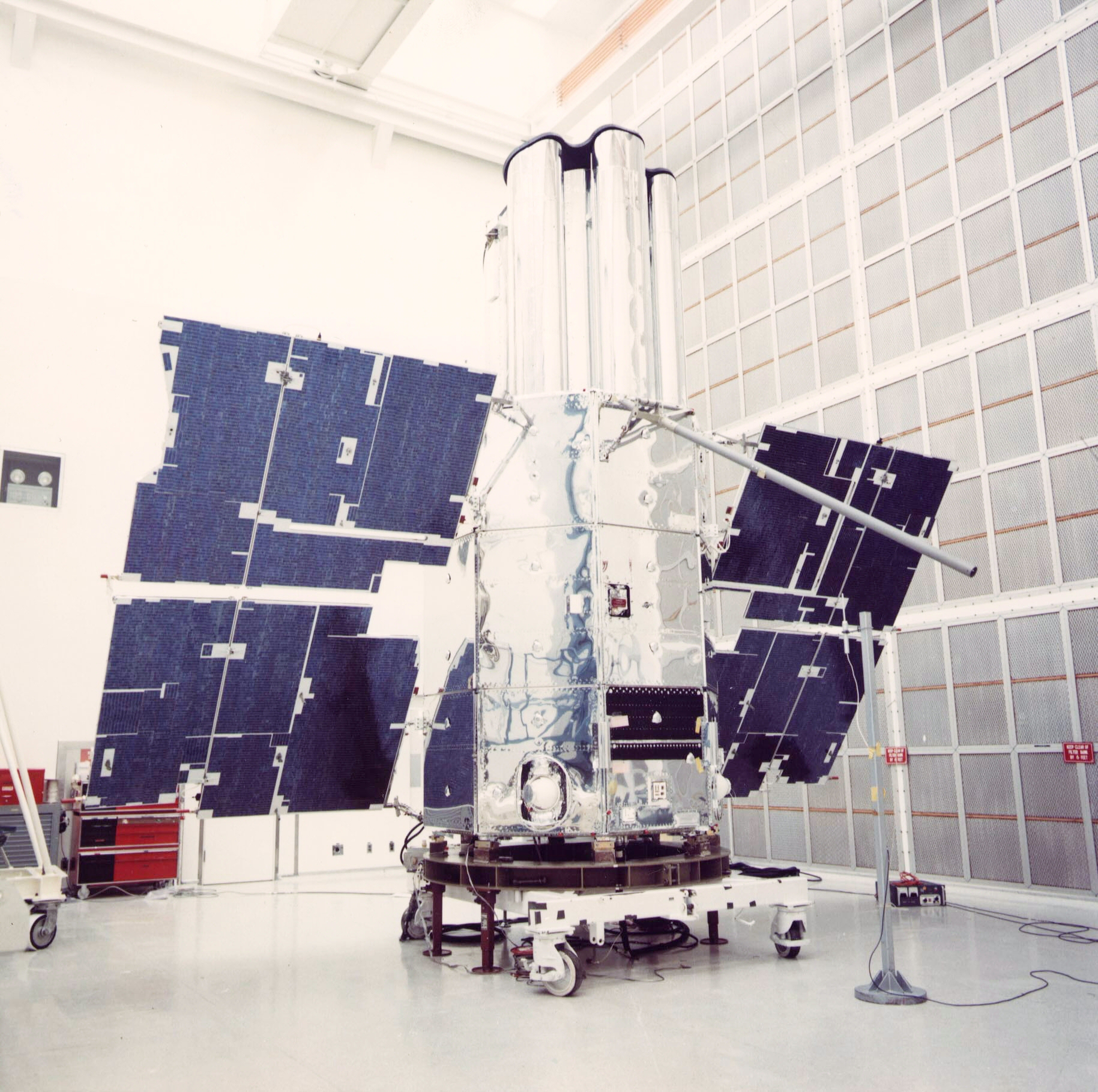 OAO 3 Spacecraft in Hangar AE clean room during S/C activites